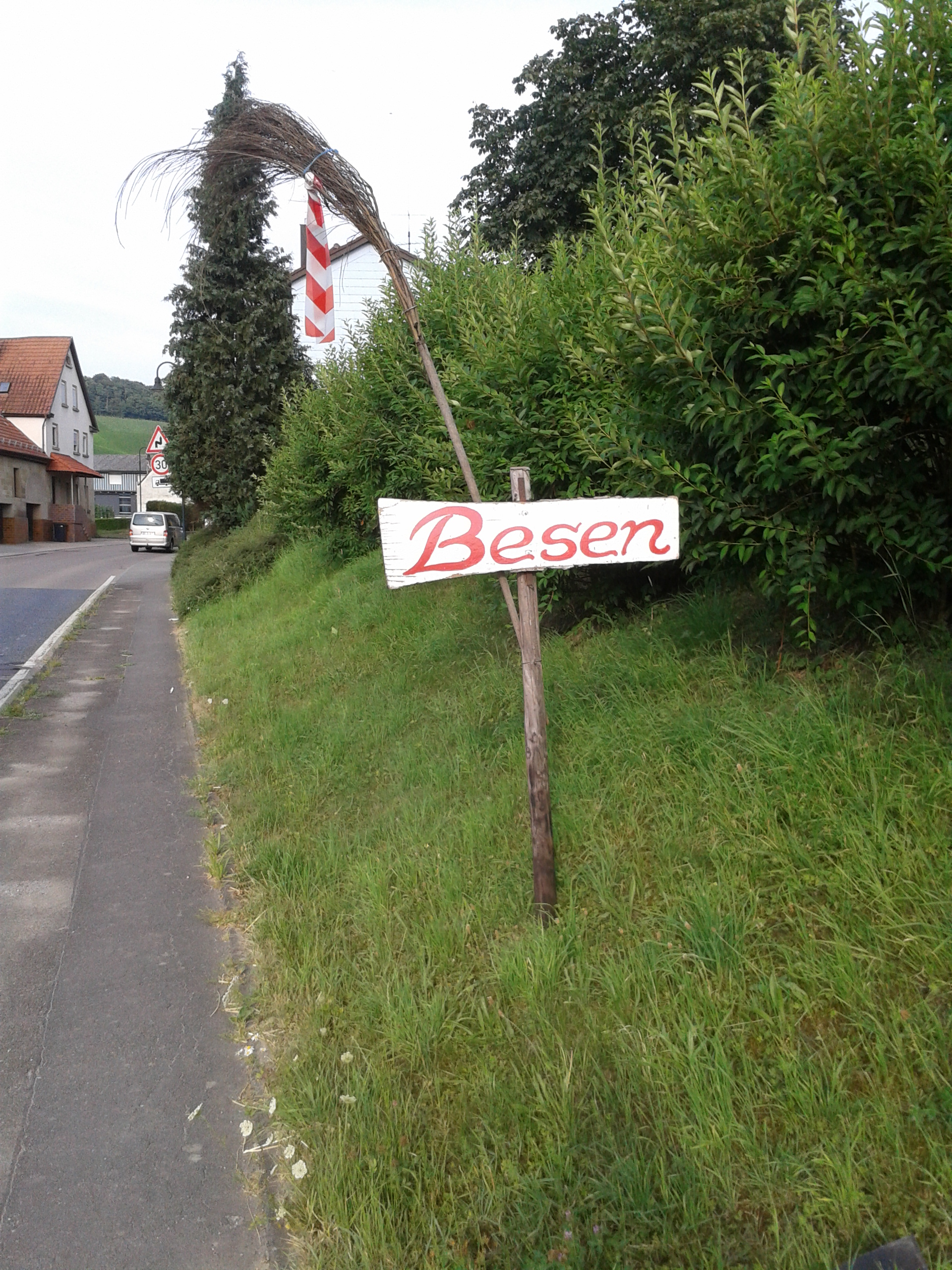 Broom - sign for: The special kind of wine restaurant (called: Besen, winegrower's new vintage outlet, here concretely the wine restaurant at Eberstadt-Hölzern near Heilbronn, Germany) is opened